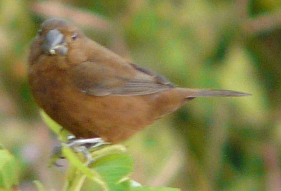 Thick-billed Seed-finch (Oryzoborus funereus) female, Costa Rica